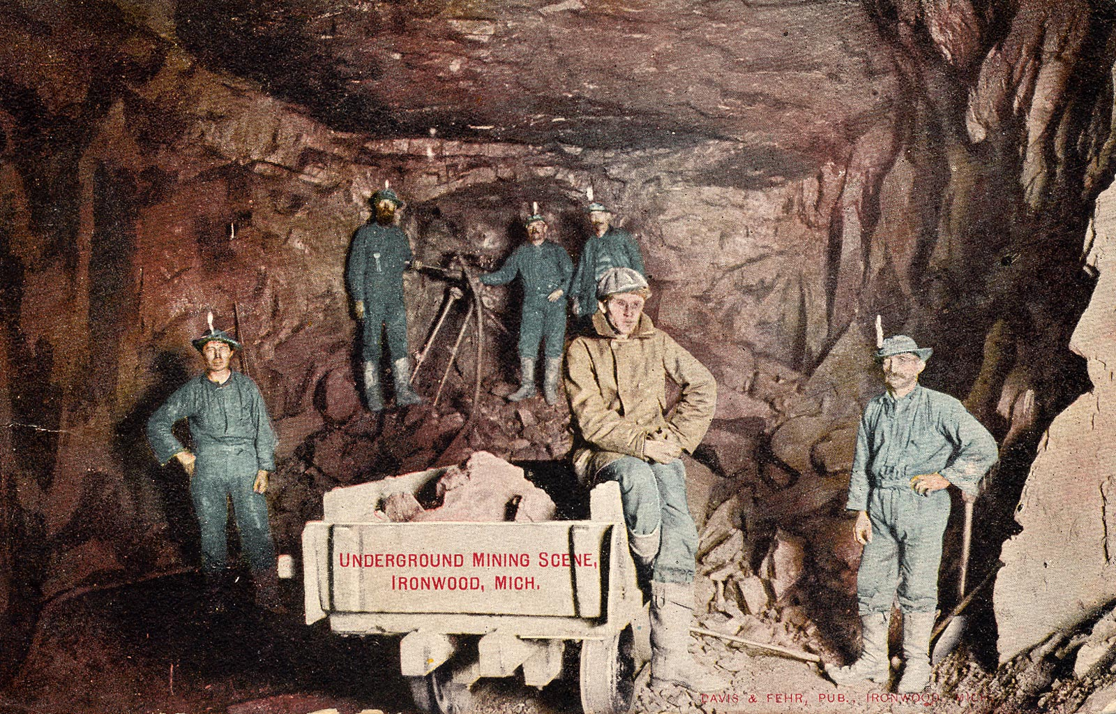 Mining scene from Ironwood, Michigan before 1910